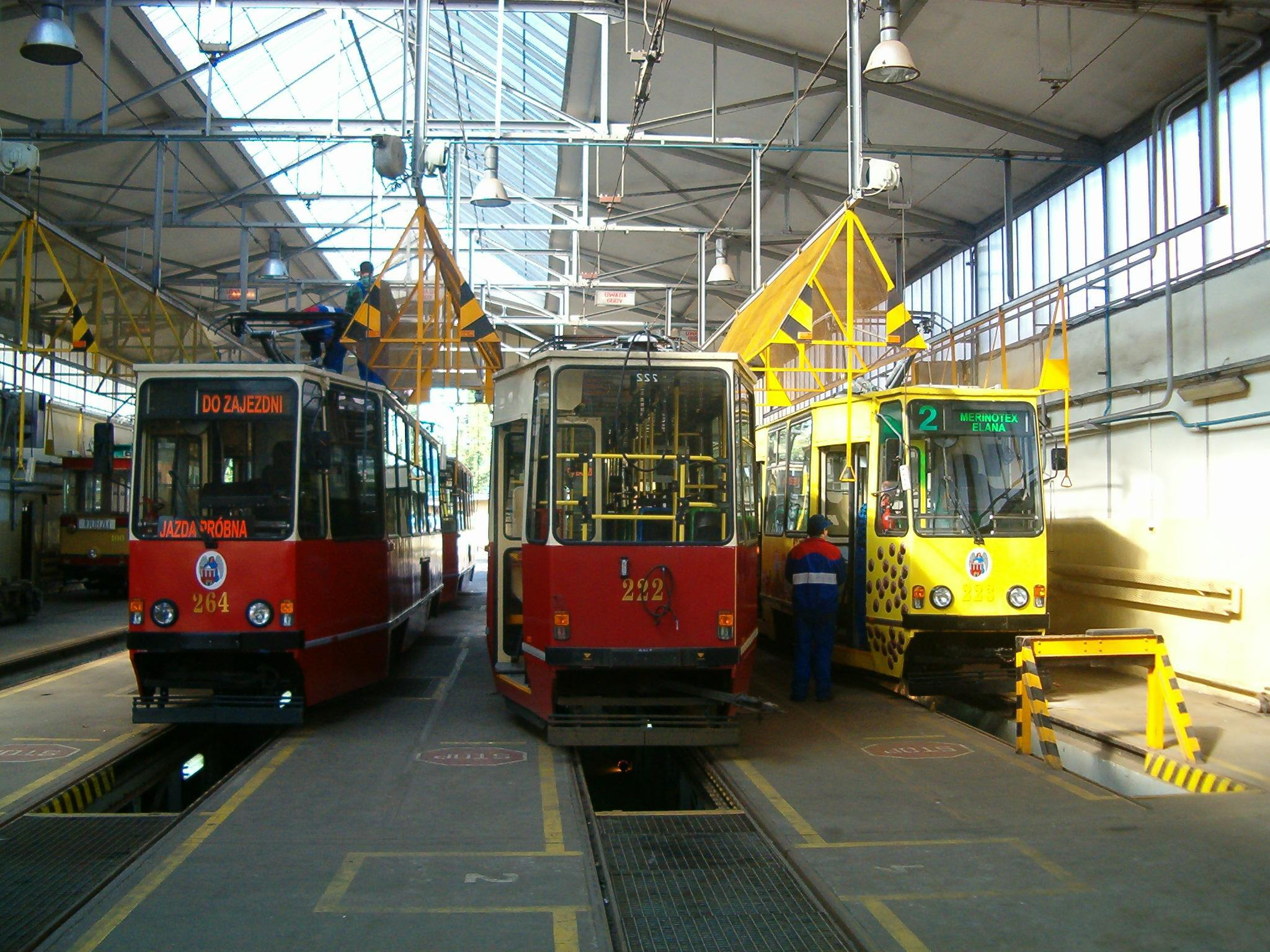 Torun,tram depot, foto Edyp